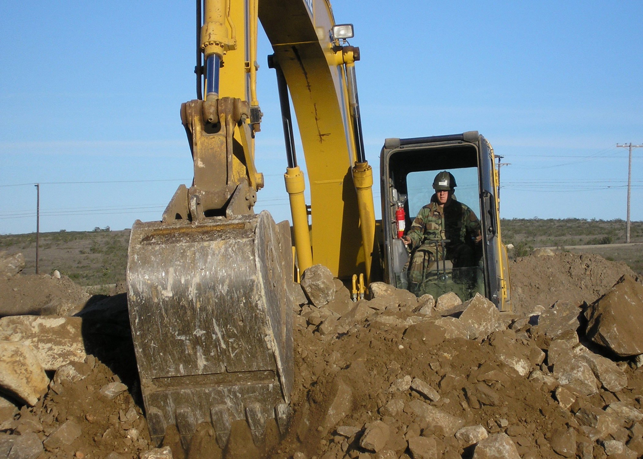 San Clemente Island (Jan. 27, 2006) - Equipment Operator 3rd Class Tyler Randall assigned to Naval Mobile Construction Battalion Four (NMCB-4), Det San Clemente Island operates an excavator during a rock crushing evolution. NMCB-4 is onboard Camp Shields on the island of Okinawa, Japan, conducting a scheduled six-month Pacific deployment. U.S. Navy Photo by Lieutenant Cris Neish (RELEASED)